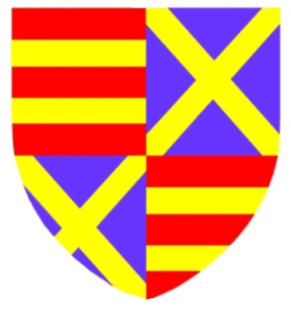 Blason de l'Abbaye Saint-André-en-Gouffern (1696)